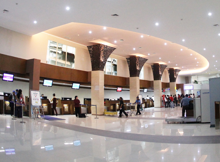 CoolFrame Photography